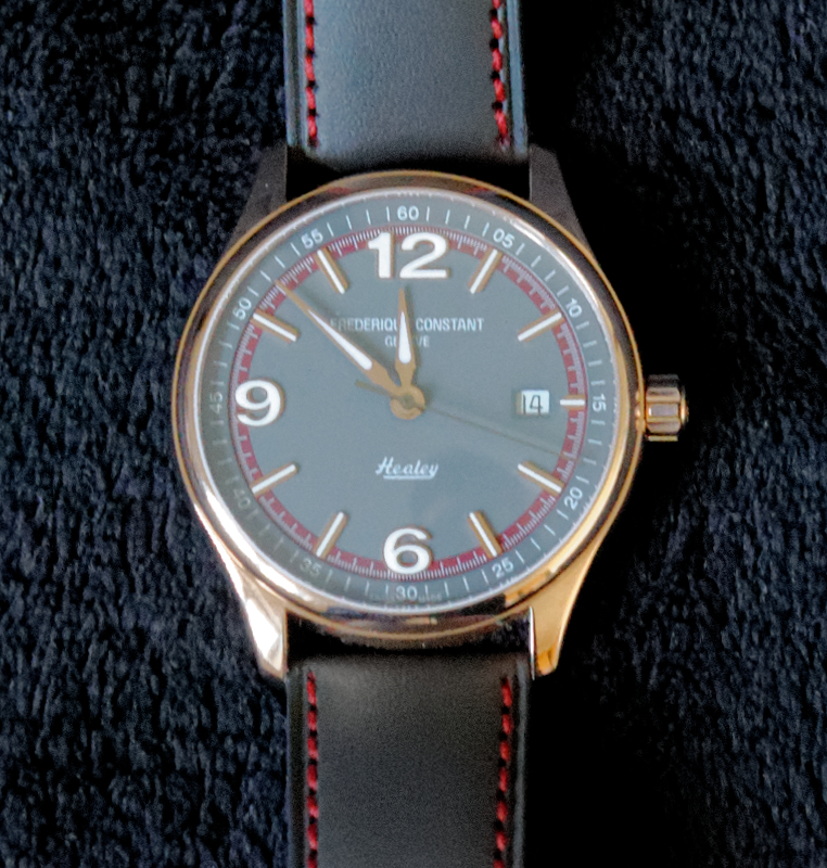 Vintage Rally Healey FC-303GBRH5B4 Rose gold plated stainless steel case, diameter of 40mm with Convex sapphire and 2-O-Rings crown, height 12.45mm.See-trought case back. Water-resistant to 5 ATM. Limited edition 2888 pieces.